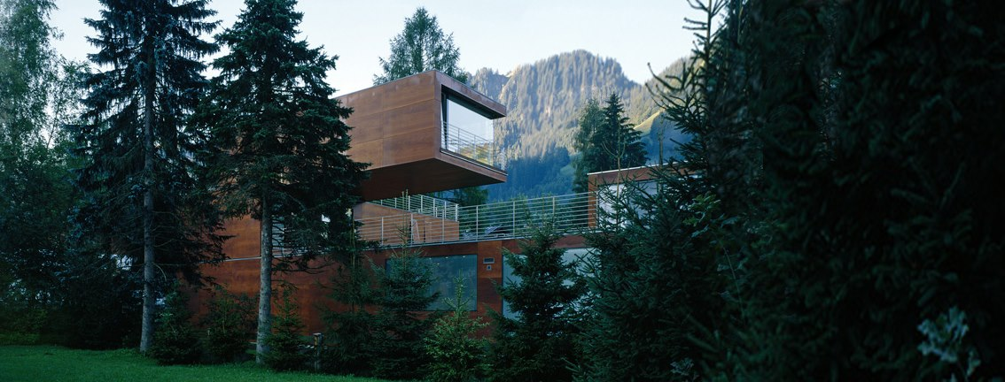 An alpine building - Designed by Christine & Horst Lechner